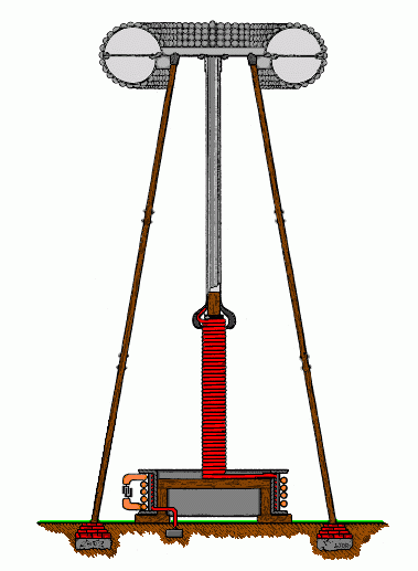 Original Tesla magnifier from US patent #1119732. View in elevation: Free terminal and circuit of large surface with supporting structure and generating apparatus Alterations to image: the original black-and-white line drawing from the patent has been colored.